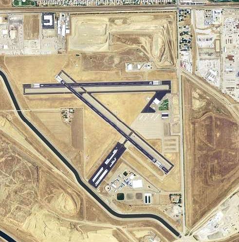 USGS digital orthophoto of Tracy Municipal Airport in California